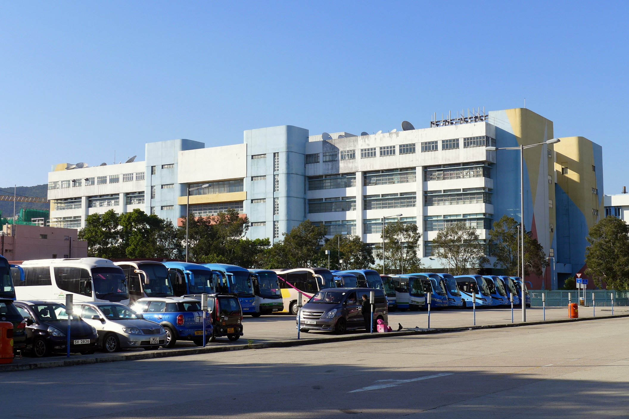 ATV Headquarters